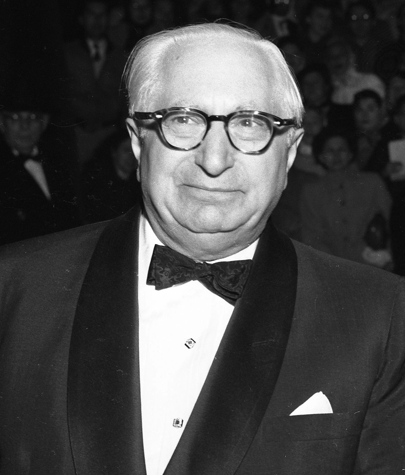 Louis B Mayer at the "Torch Song" movie premiere in Los Angeles, Calif., 1953